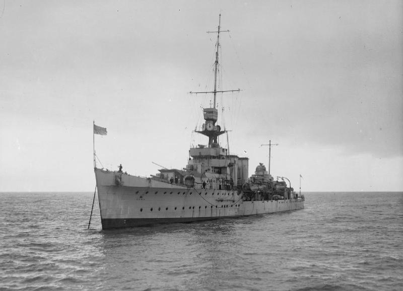 British light cruiser HMS CALCUTTA at anchor.